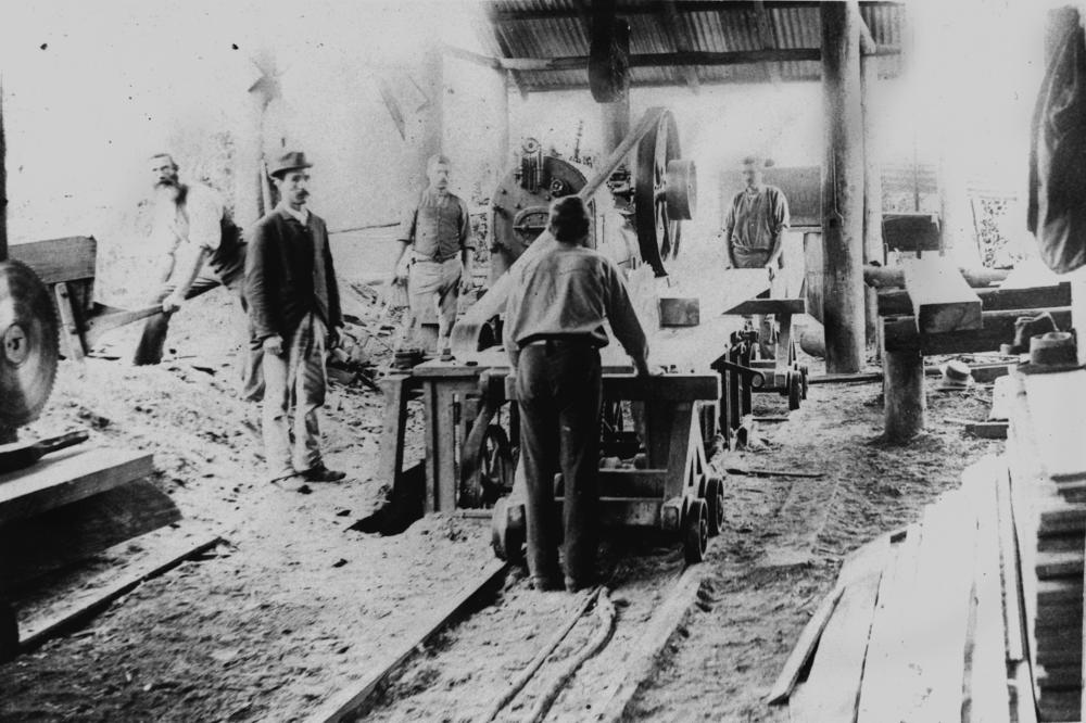 Men working in Rossler's Sawmill at Nerang, ca. 1896 Benchman and tailor working with a logs over a saw bench. The mill is powered by a steam engine.